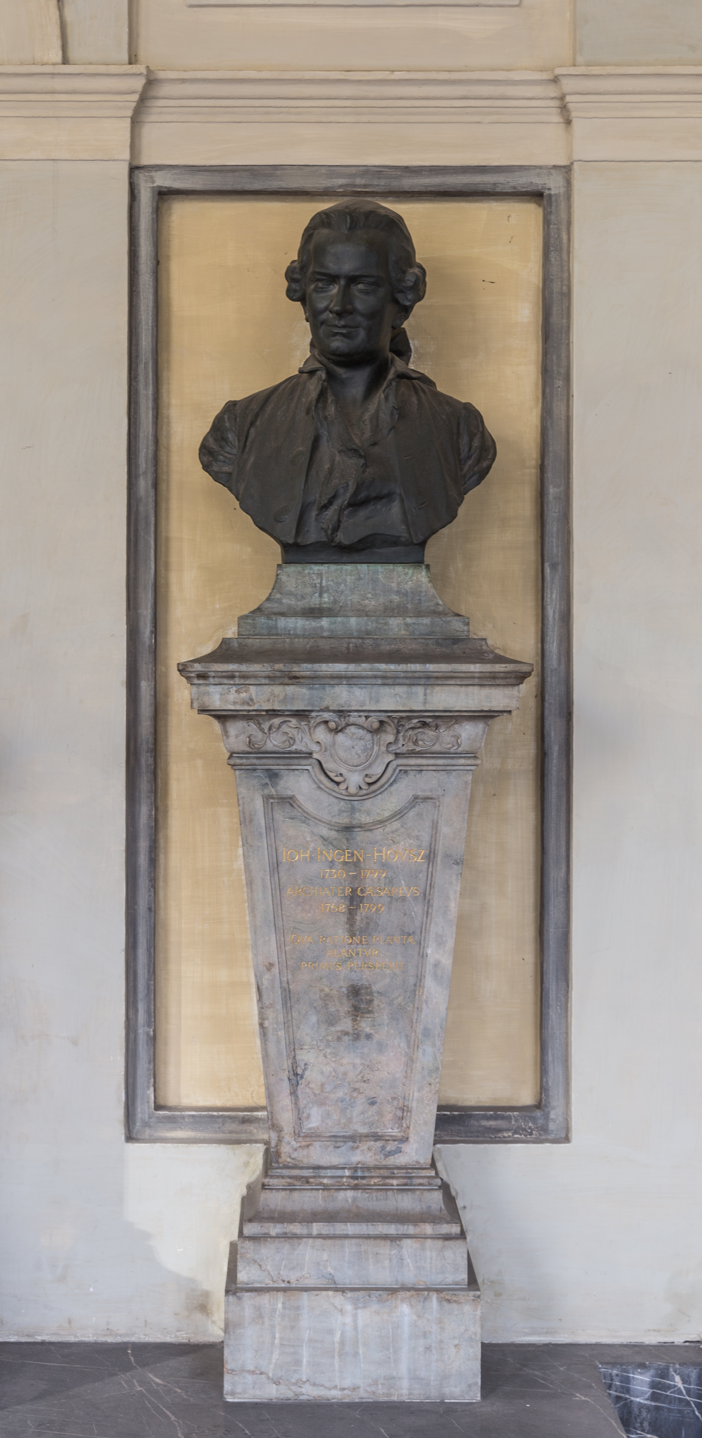 Jan Ingen-Housz (1730-1799), bust (bronze) in the Arkadenhof of the University of Vienna, (Maisel# 37). Artist: Franz Seifert (1866-1951), unveiled 1905